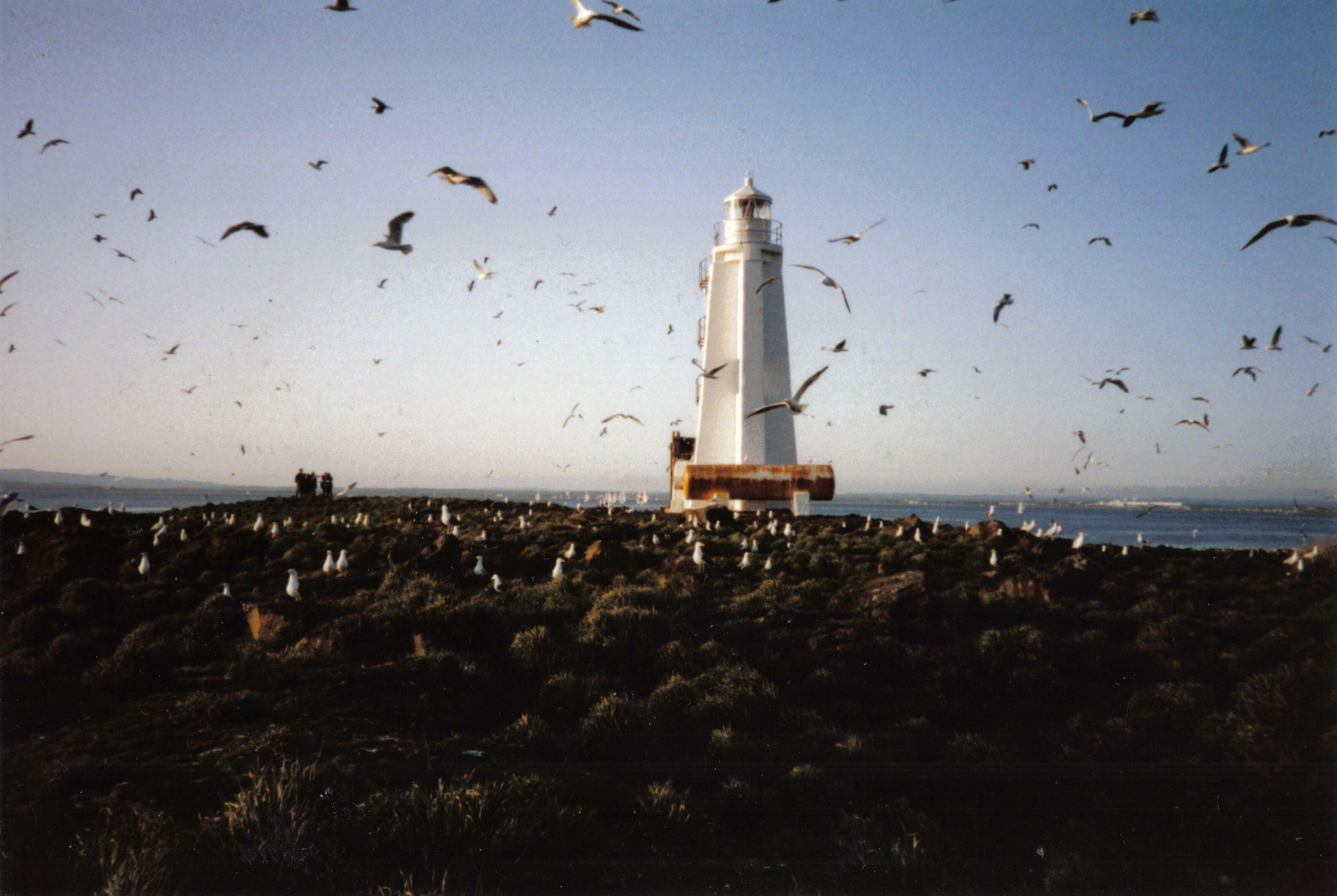 Lady Isle, South Ayrshire. Scotland. A view of the island showing the lighthouse and Irvine in the background.